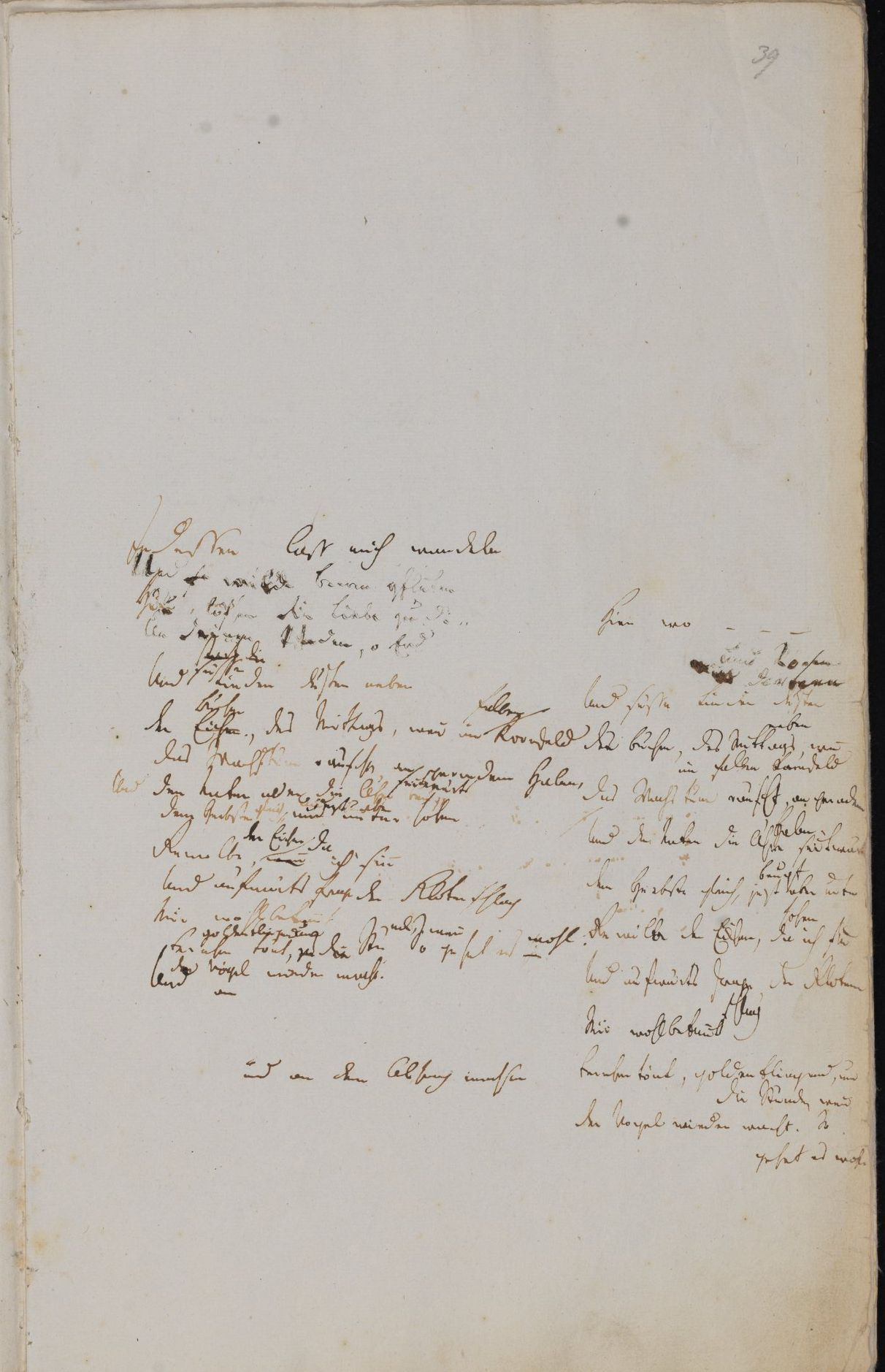 Manuscript by Hölderlin of his poem fragment Heimath, part 2